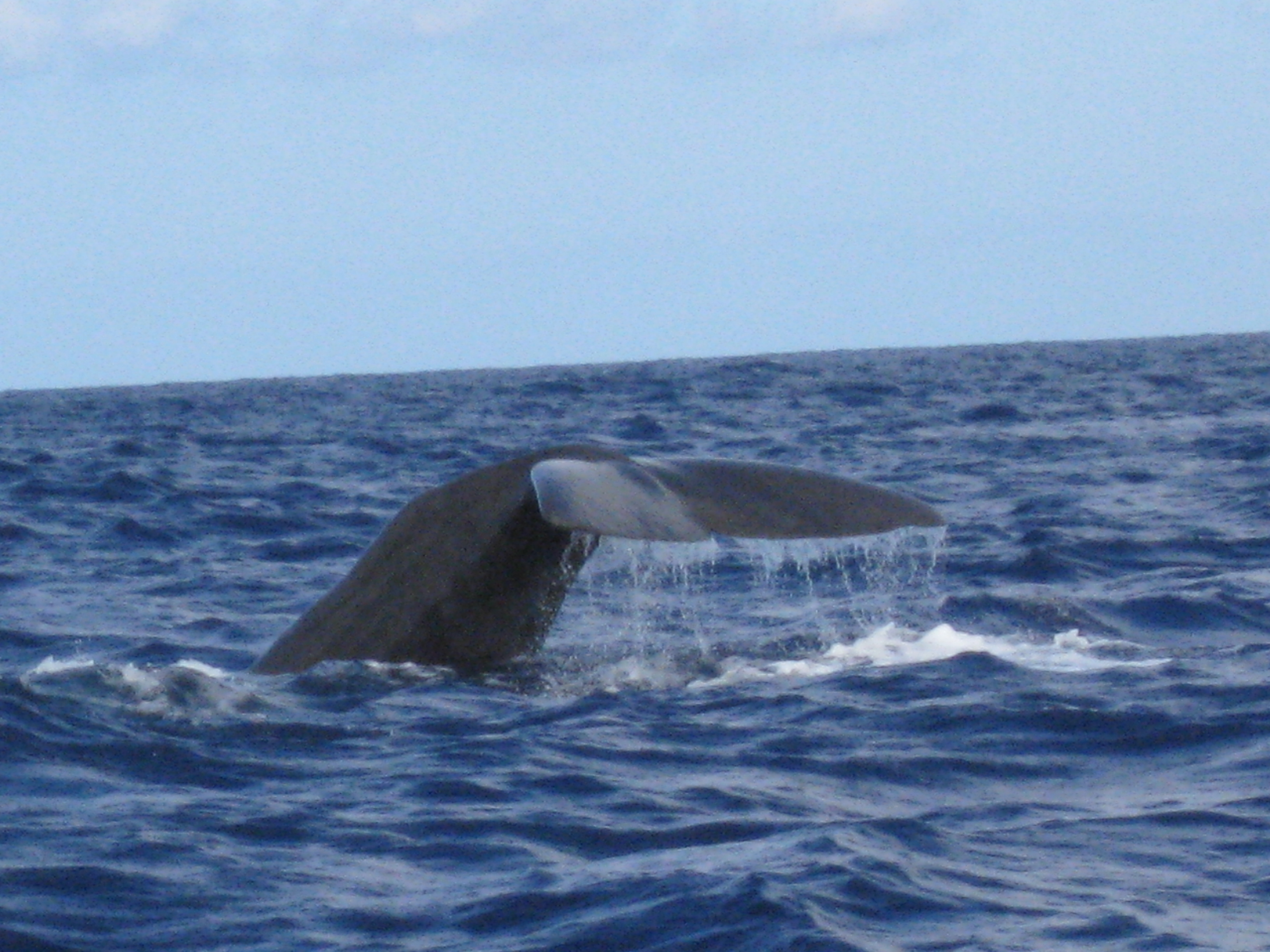 Whale watching in São Miguel island, Azores